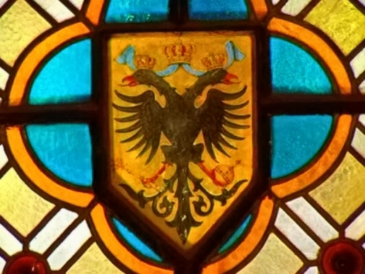 castle gelbsand 2012